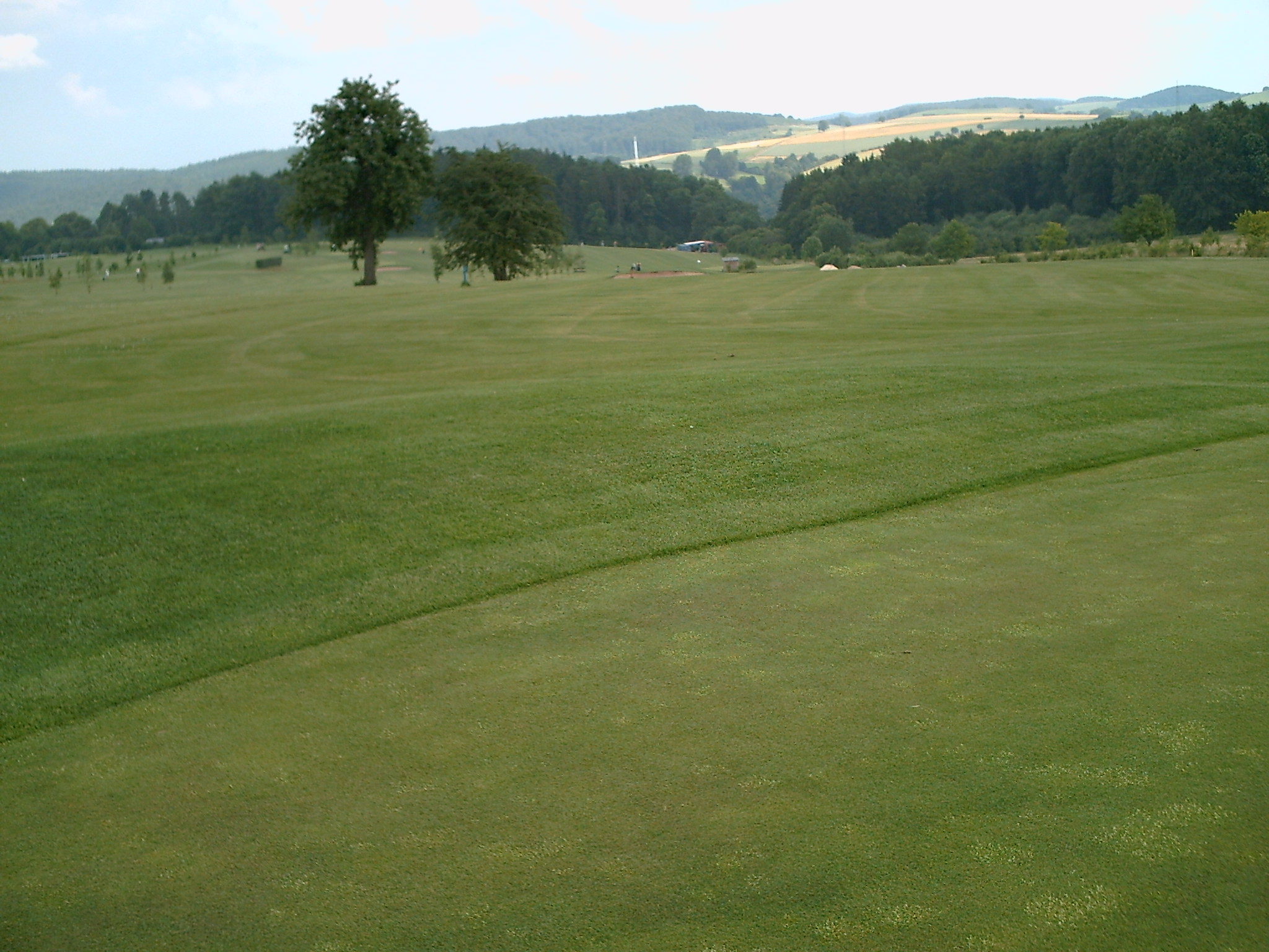 Course of the Golfclub in Westheim, near Marsberg, Germany